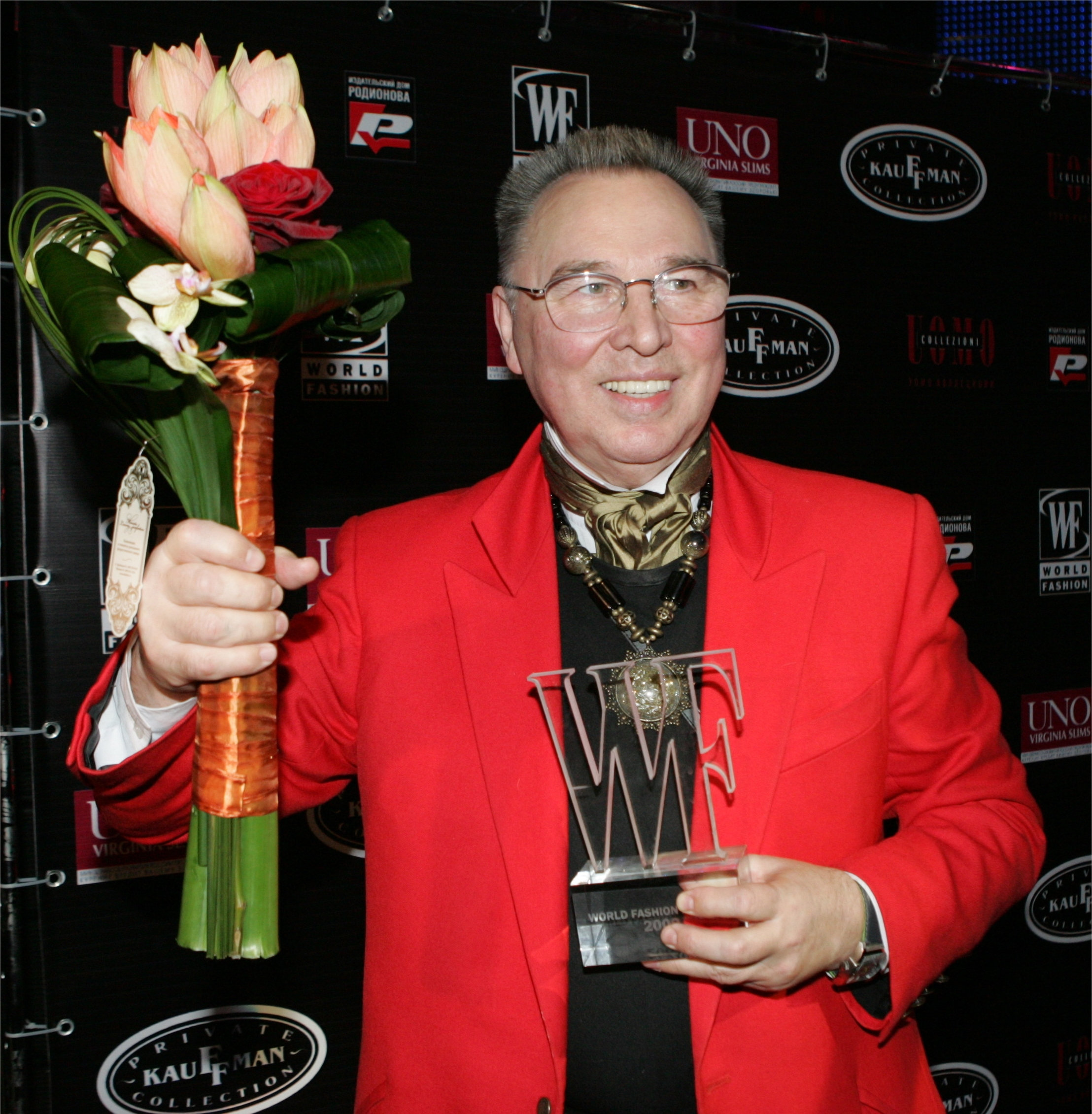 Slava Zaitsev